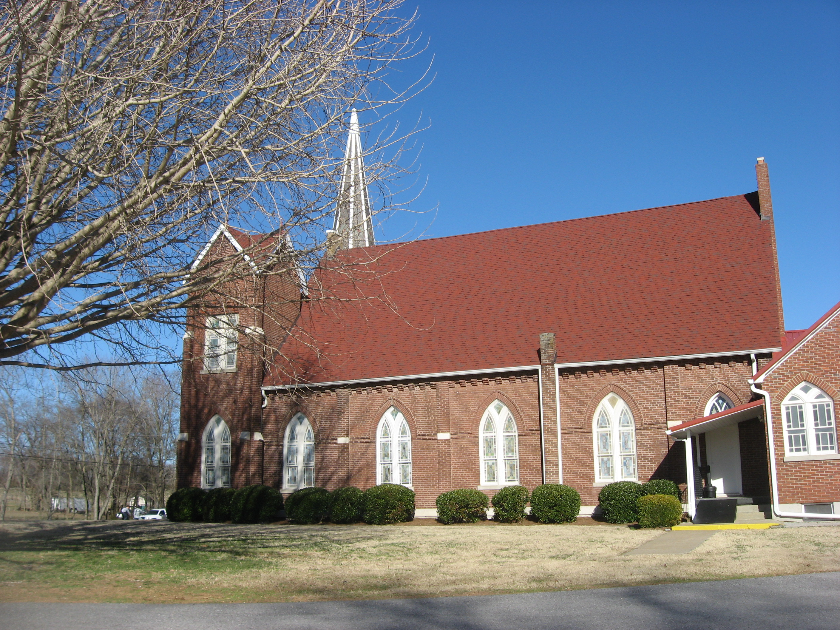 Western side of Bethel Baptist Church, located immediately east of the Jefferson Davis State Historic Site in Fairview, Kentucky, United States. Built in 1901, it is listed on the National Register of Historic Places.